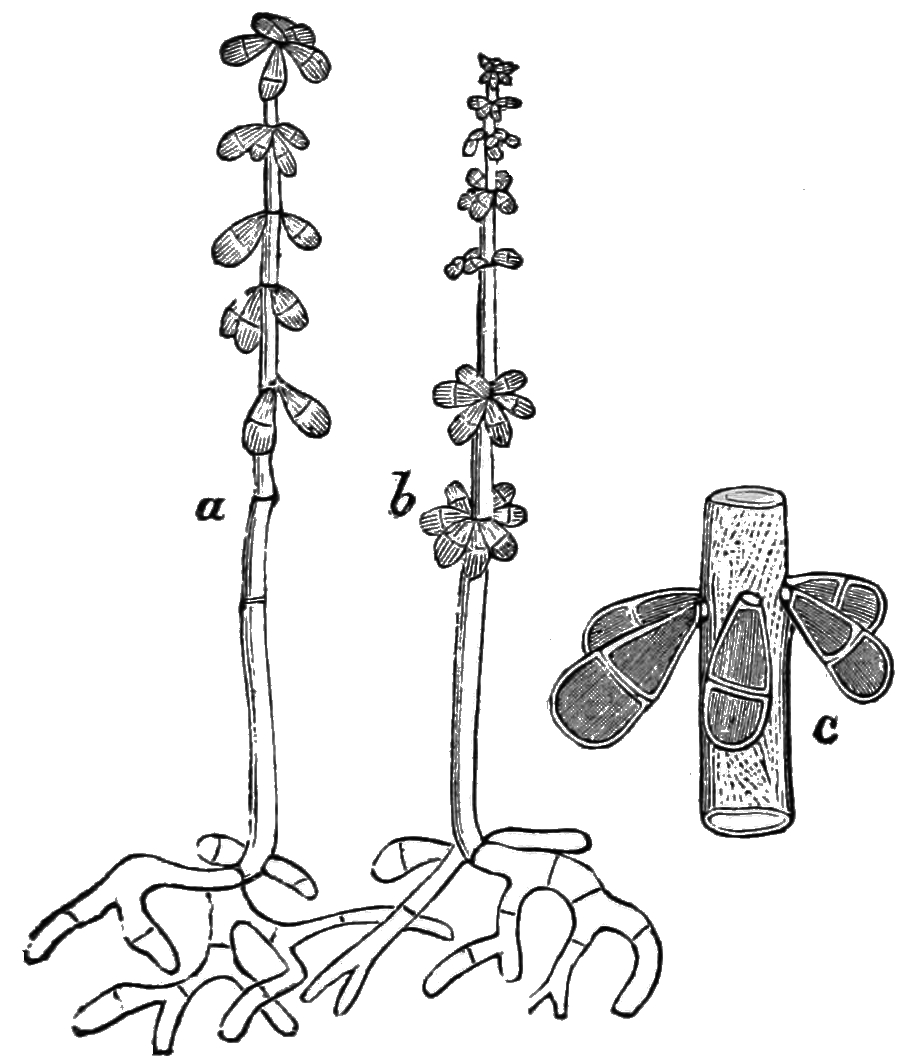 Tricothesium roseum